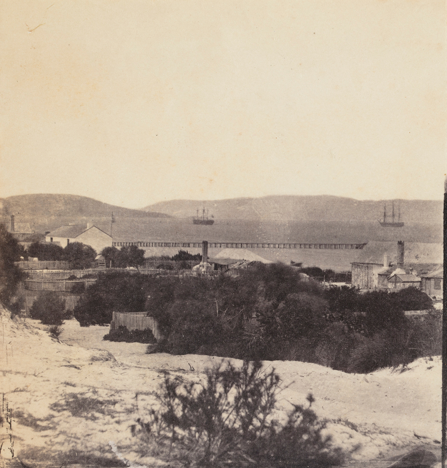 King Georges Sound and Albany, Western Australia, 1858, possibly by Arthur Onslow, vintage albumen print, left half of stereoscopic pair, State Library of New South Wales PXA 4358/Vol. 1